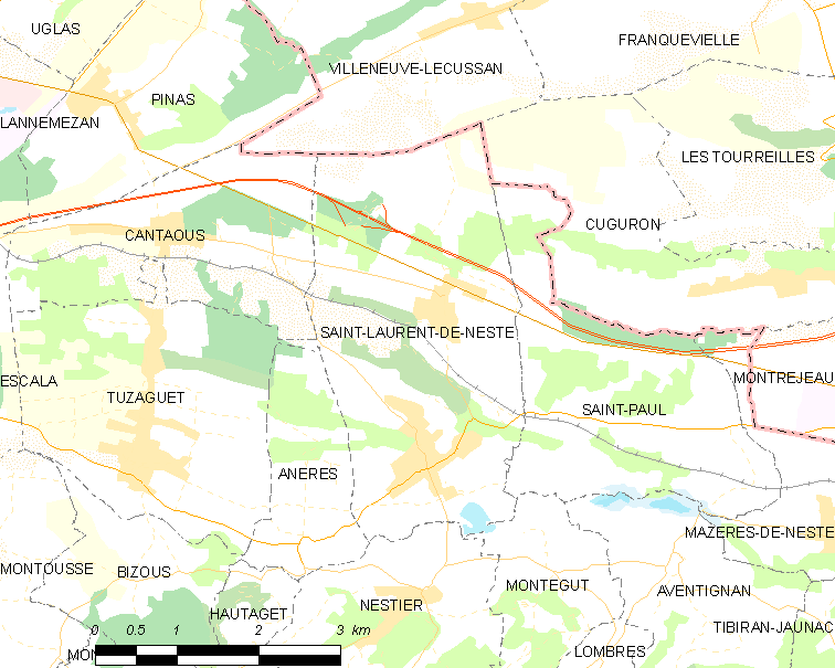 Map of French municipality